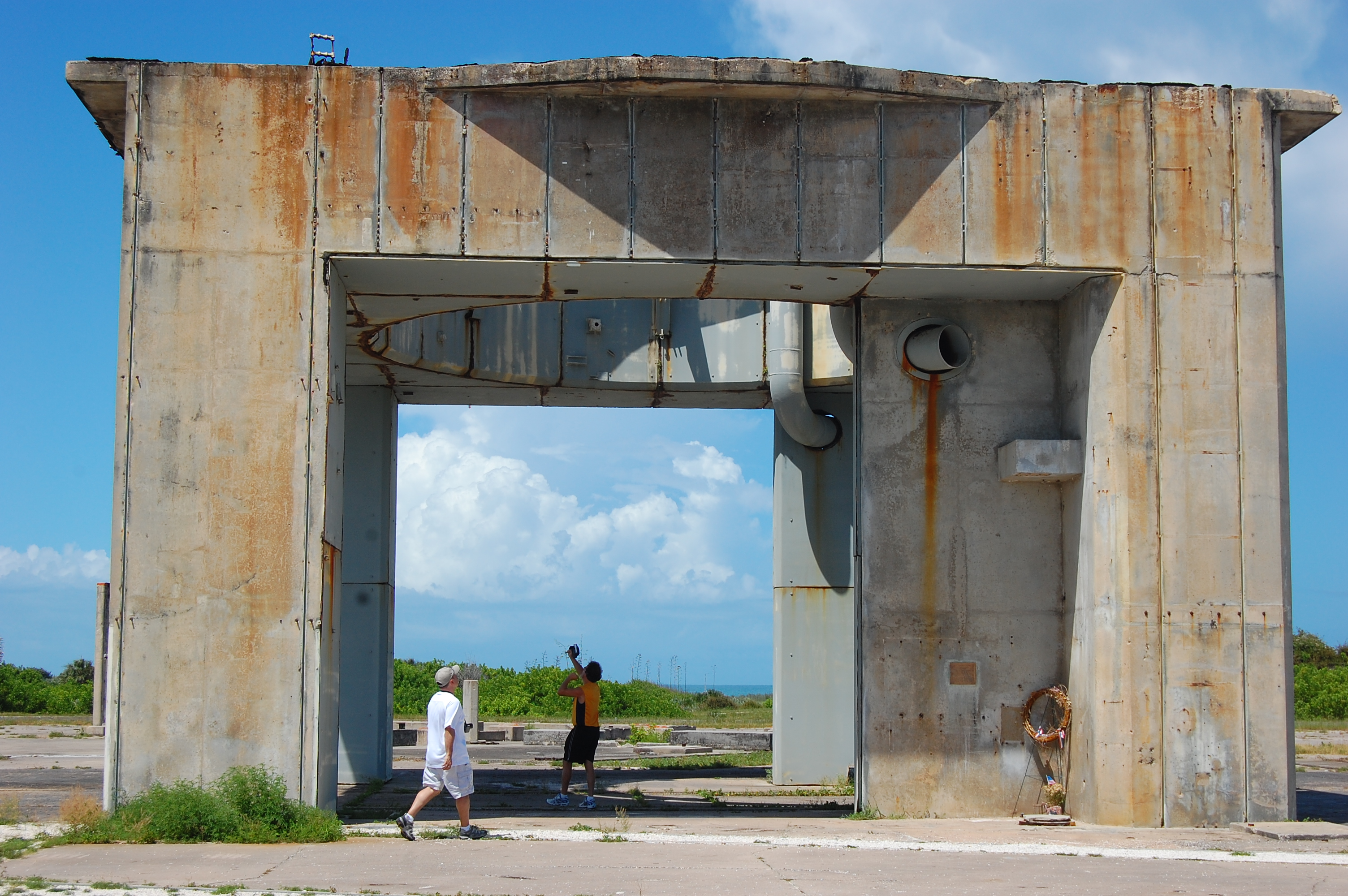 Launch platform at Cape Canaveral Air Force Station Launch Complex 34.